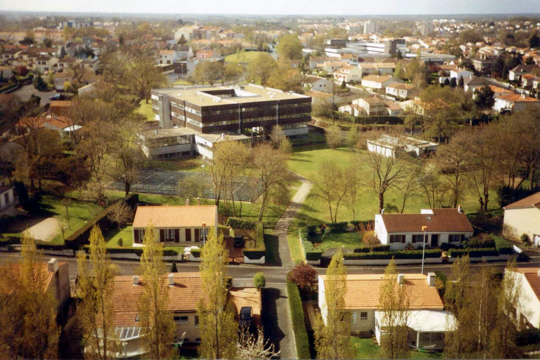 Picture taken on 04/04/1993.